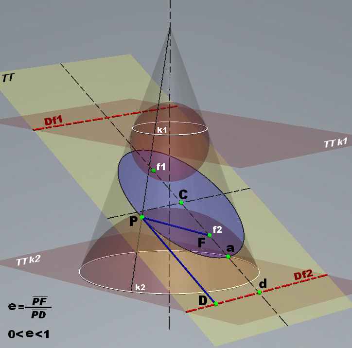 Directrix of an ellipse from the Dandelin spheres